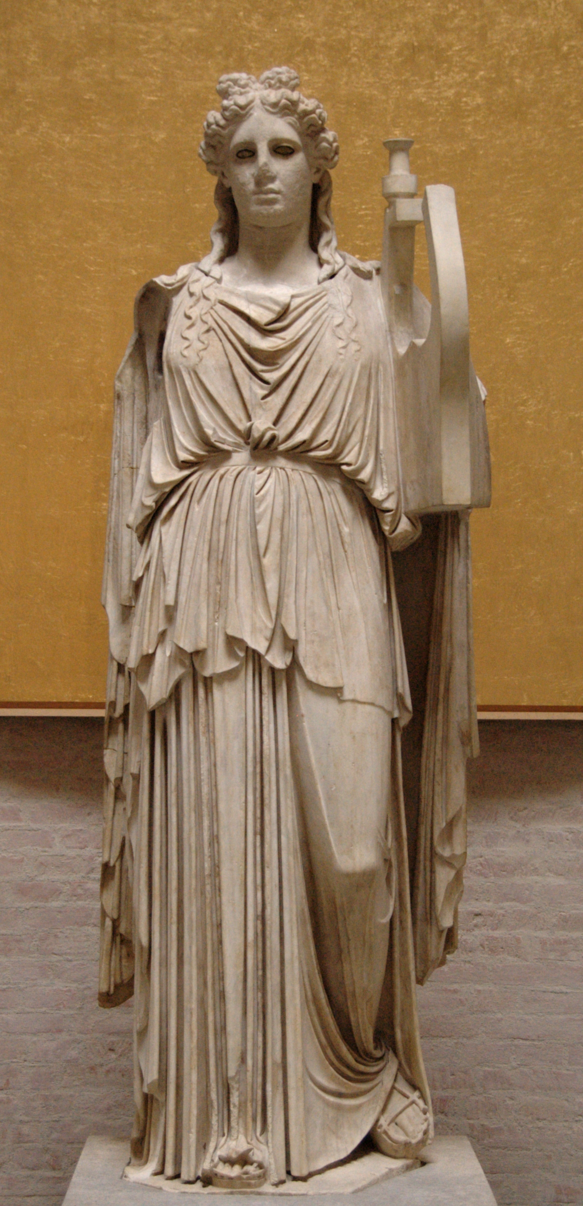 So-called “Apollo Barberini”. The musician god holds in his left arm the “kithara” and in his right one a cup (the right arm and the left front arm were worked separatly). Eyeballs in white stone and lashes in bronze (iris and pupils, lost, were made in colored materials). Probable copy of the cult statue in the temple of Apollo Palatinus in Rome (free reproduction of a work from 4th century BC). 1st–2nd century CE.